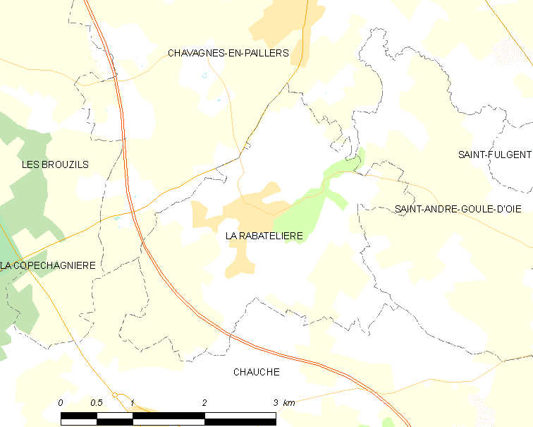 Map of French municipality La Rabatelière